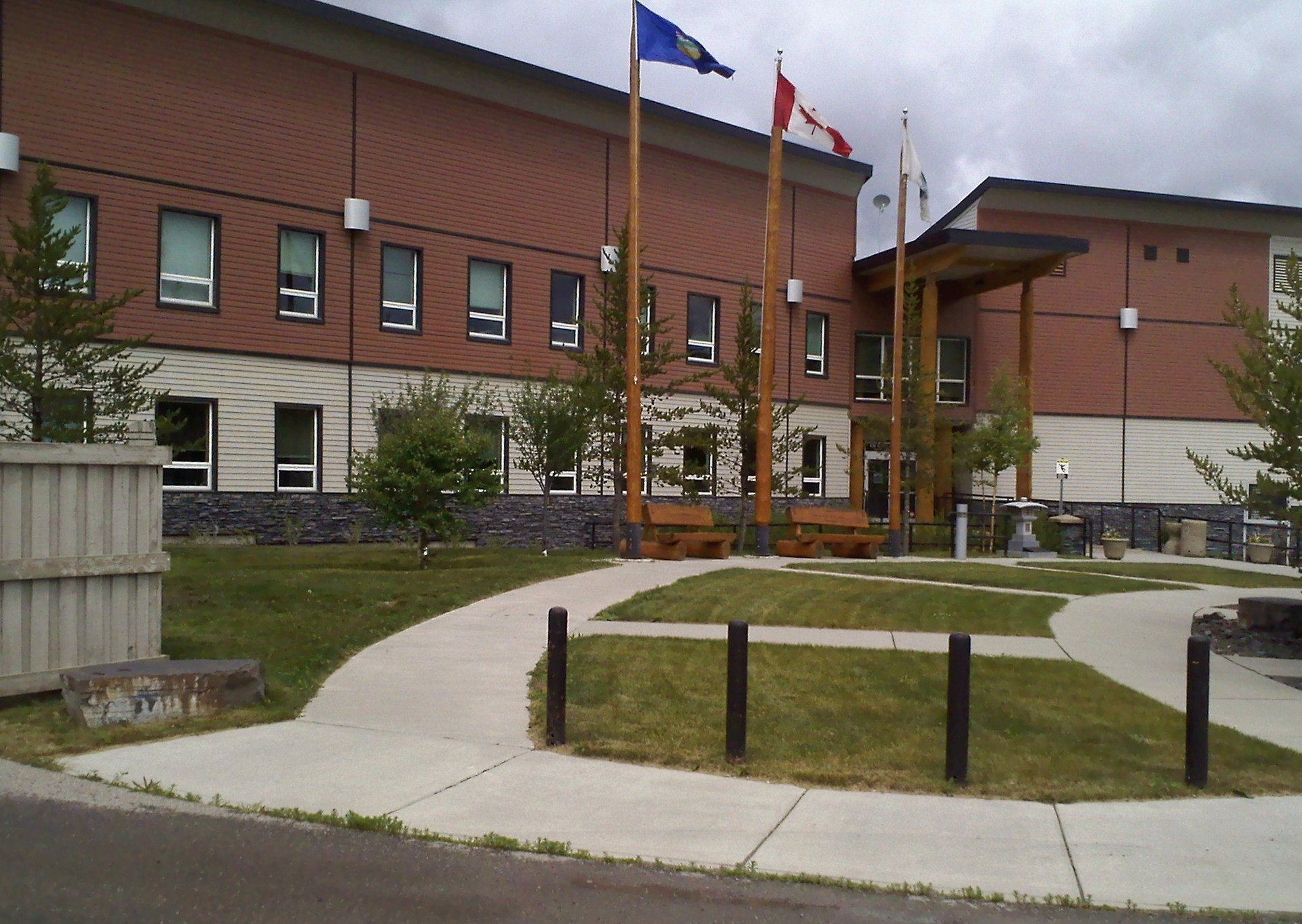 Government Centre in Hinton, Alberta.